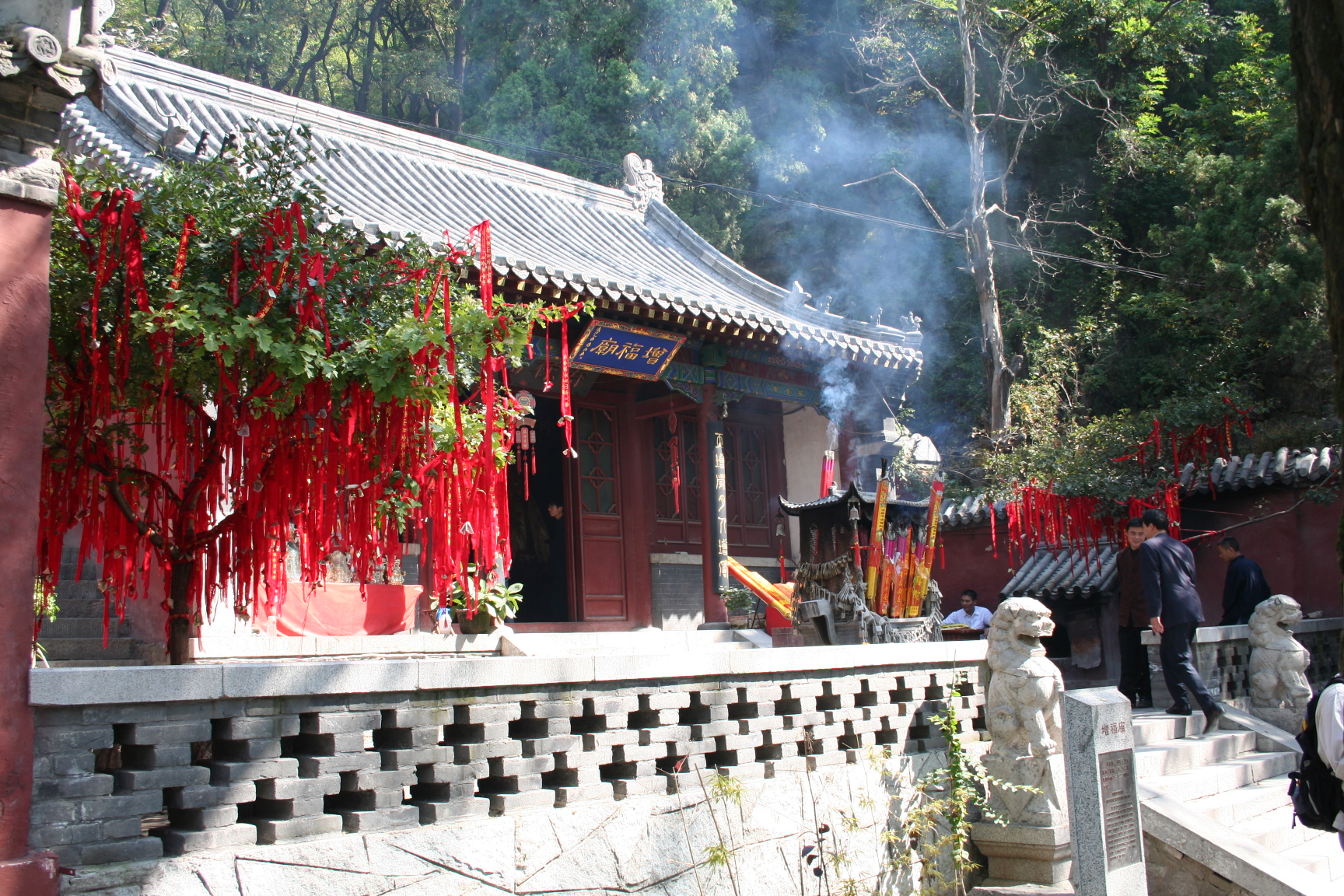 Photograph of Zeng Fu Temple on Mount Tai, Shandong Province, China